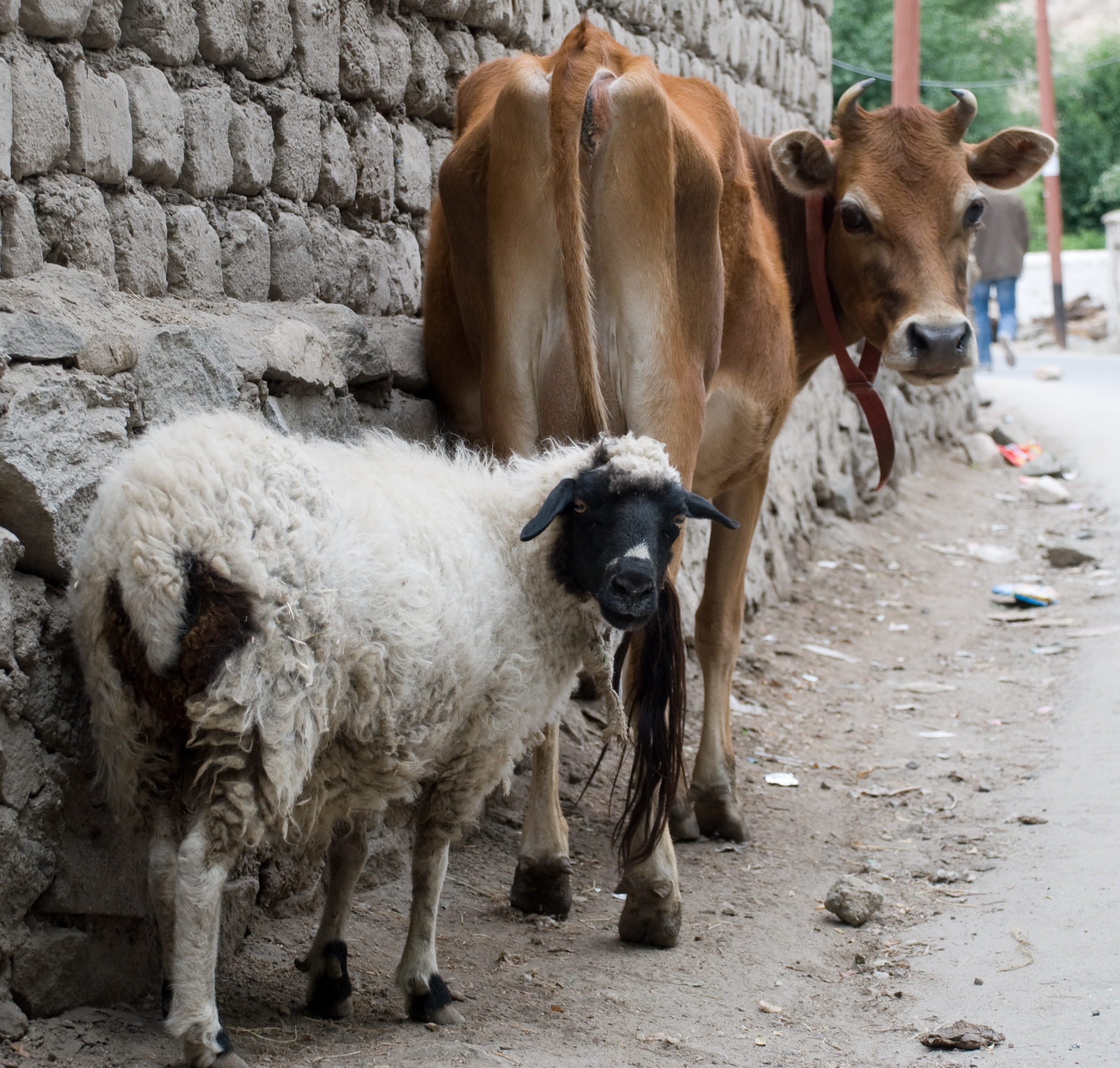 Two for the road